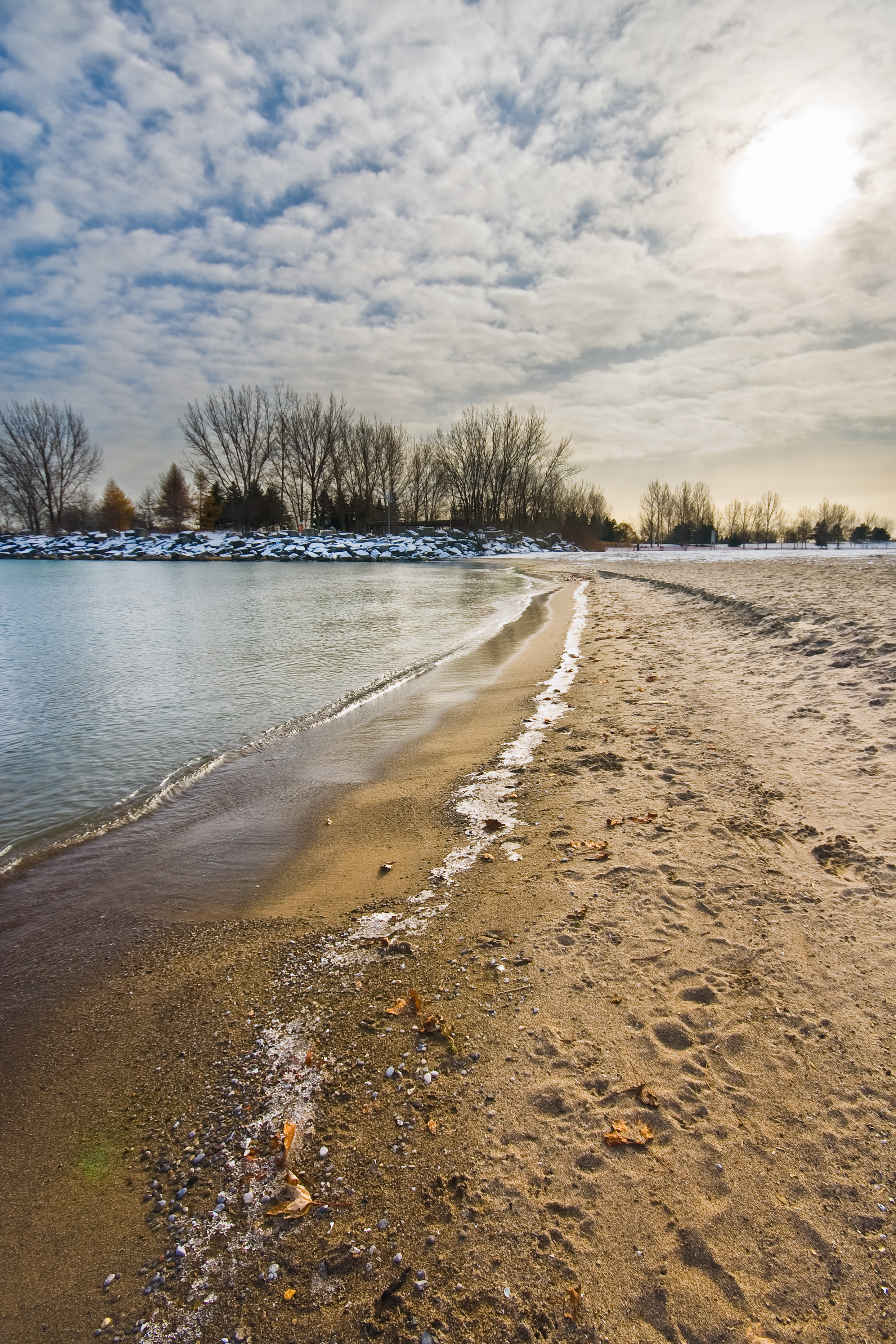 Woodbine Beach in winter, Toronto, Canada.